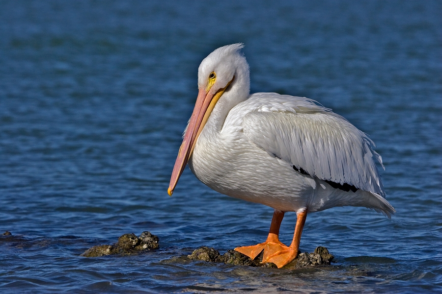 American White Pelican , Fulton Harbour, Fulton, Texas